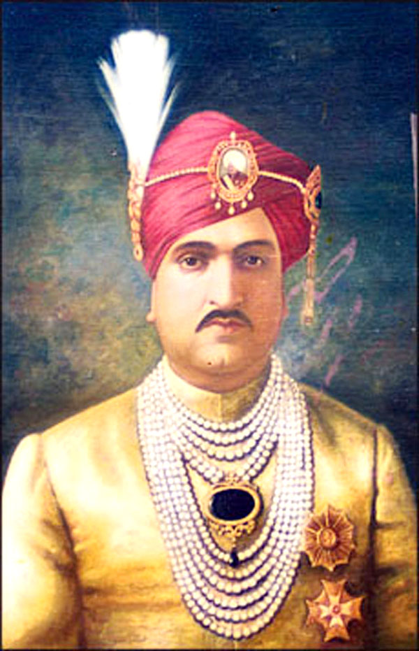 Raja Hari Singh